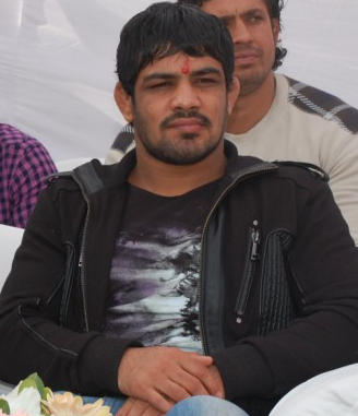 Sushil Kumar, World champion (2010) and Beijing Olympics bronze medalist Indian wrestler, attending annual sports meet of GGSIPU, Delhi as a chief guest.